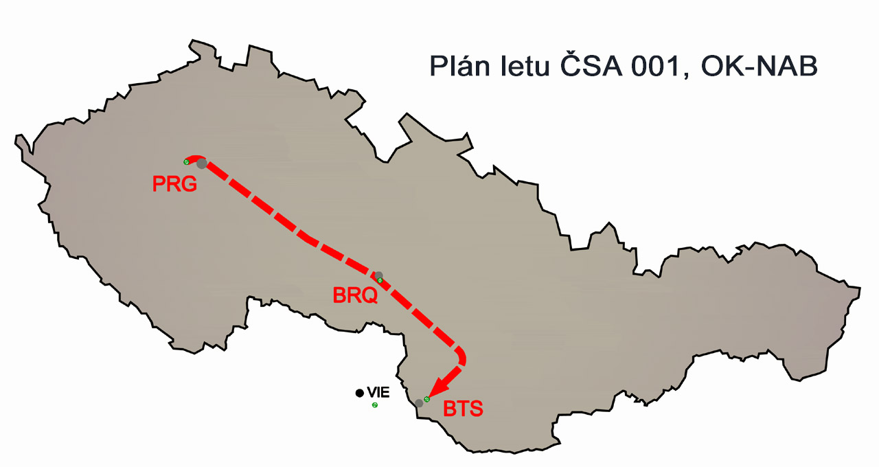 Flight plan of CSA001 OK-NAB